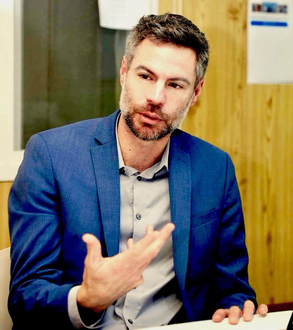 Michael Shellenberger in 2017